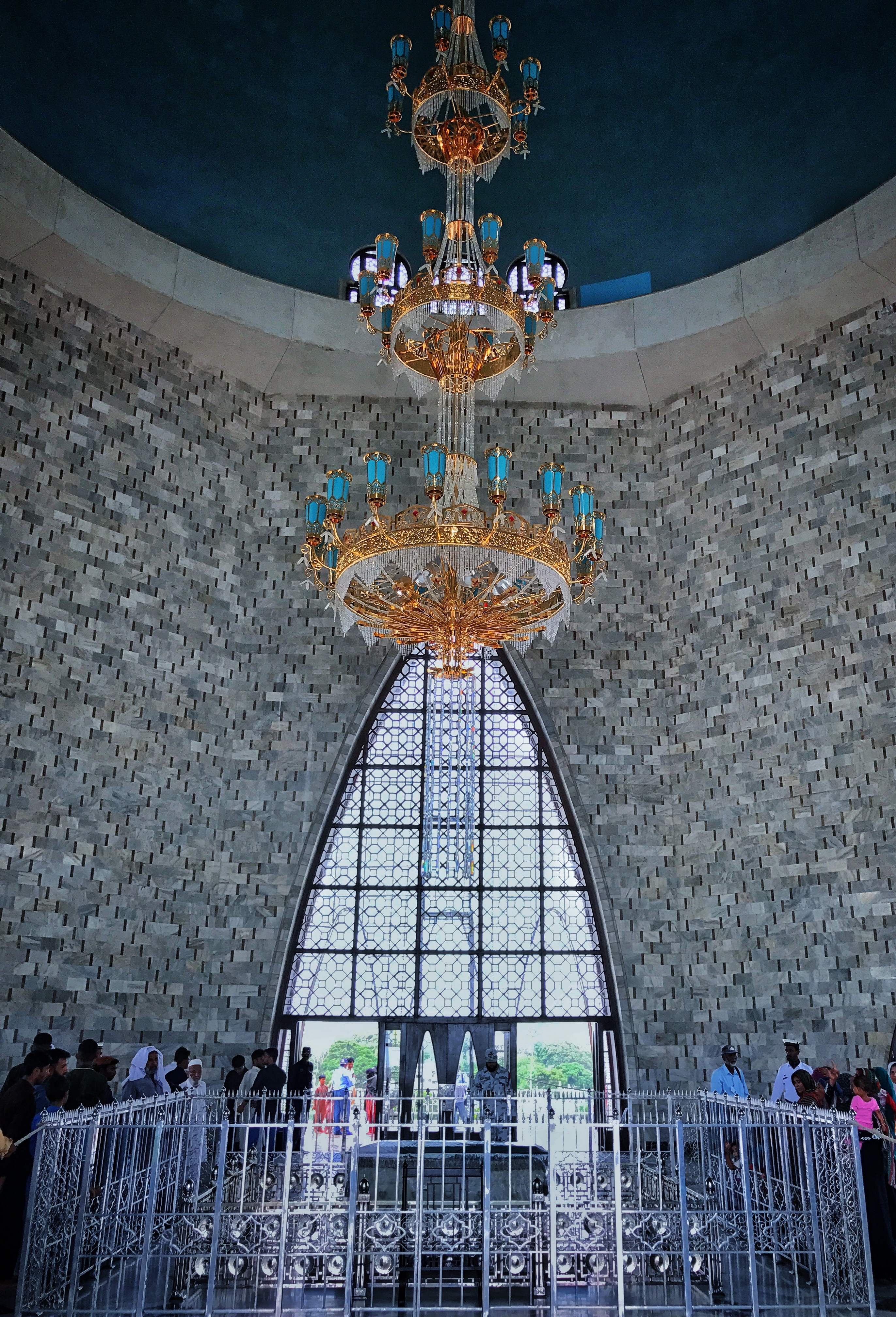 Mazar-e-Quaid This is a photo of a monument in Pakistan identified as the SD-36